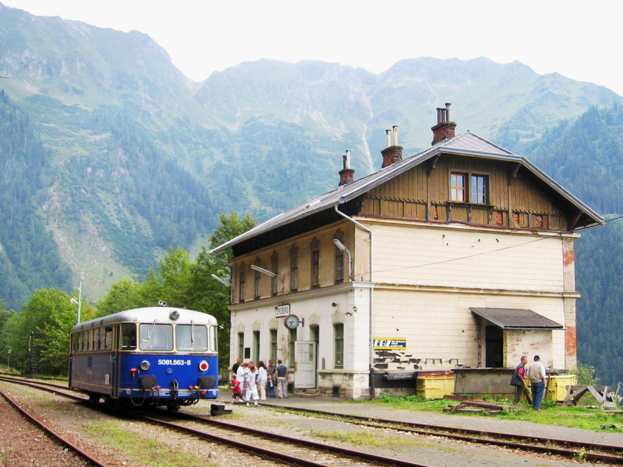 Erzberg station and a class 5081 railbus